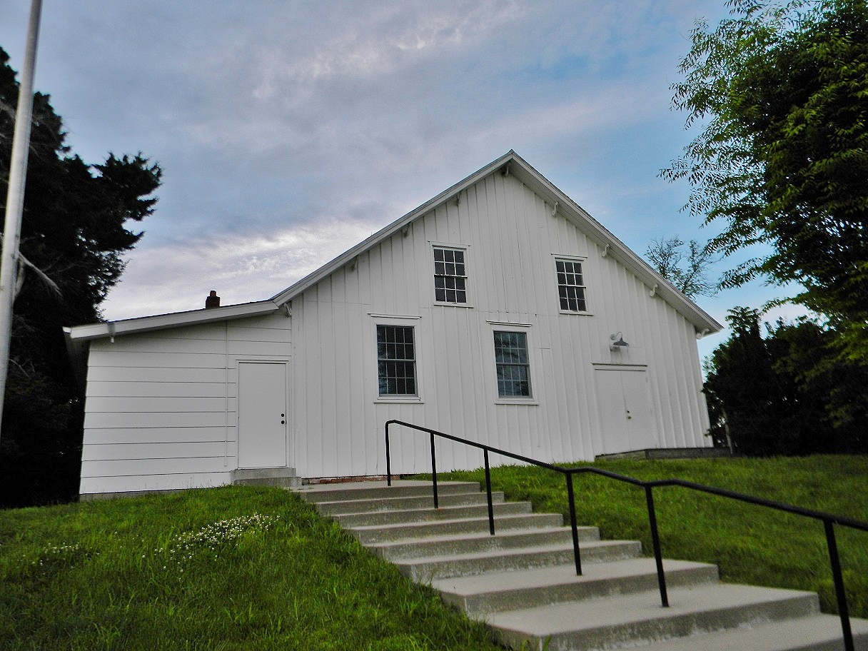 Augusta Harmonie Verein Continues to used as a community meeting hall.